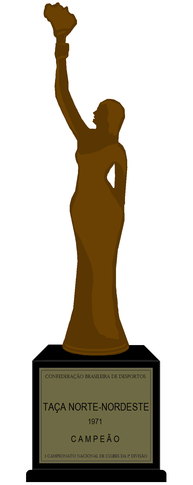 TROPHY BRAZILIAN N-NE 1971